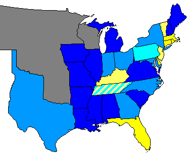 Summary of party control of U.S. house seats in the 29th United States Congress following election. Stripes indicate a tie between two or more parties. Legend: 80.1-100% Democratic seat majority 60.1-80% Democratic seat majority 60% or less Democratic seat plurality 60% or less Whig seat plurality 60.1-80% Whig seat majority 80.1-100% Whig seat majority